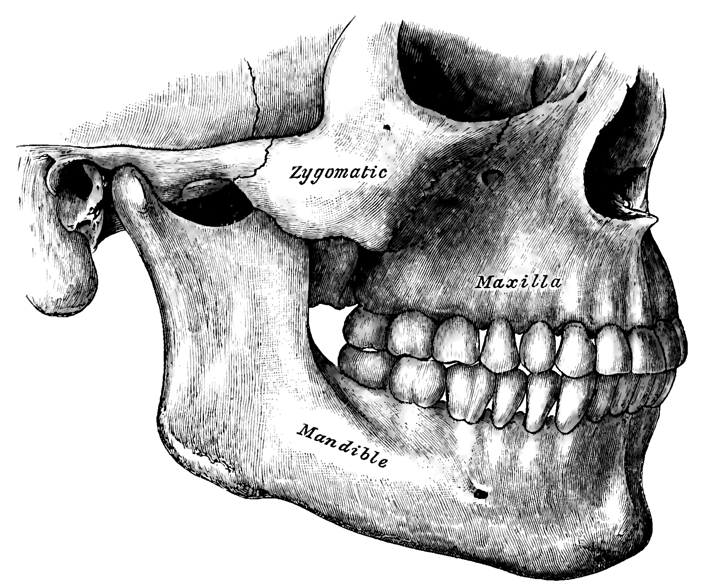 Side view of the teeth and jaws.